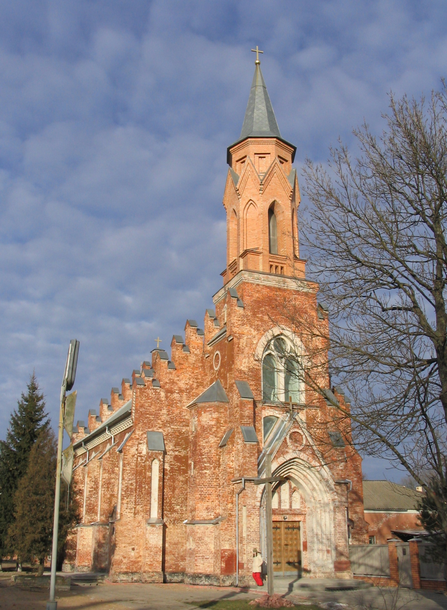 Roman Catholic Holy Trinity Parish Church in Rechytsa, Belarus